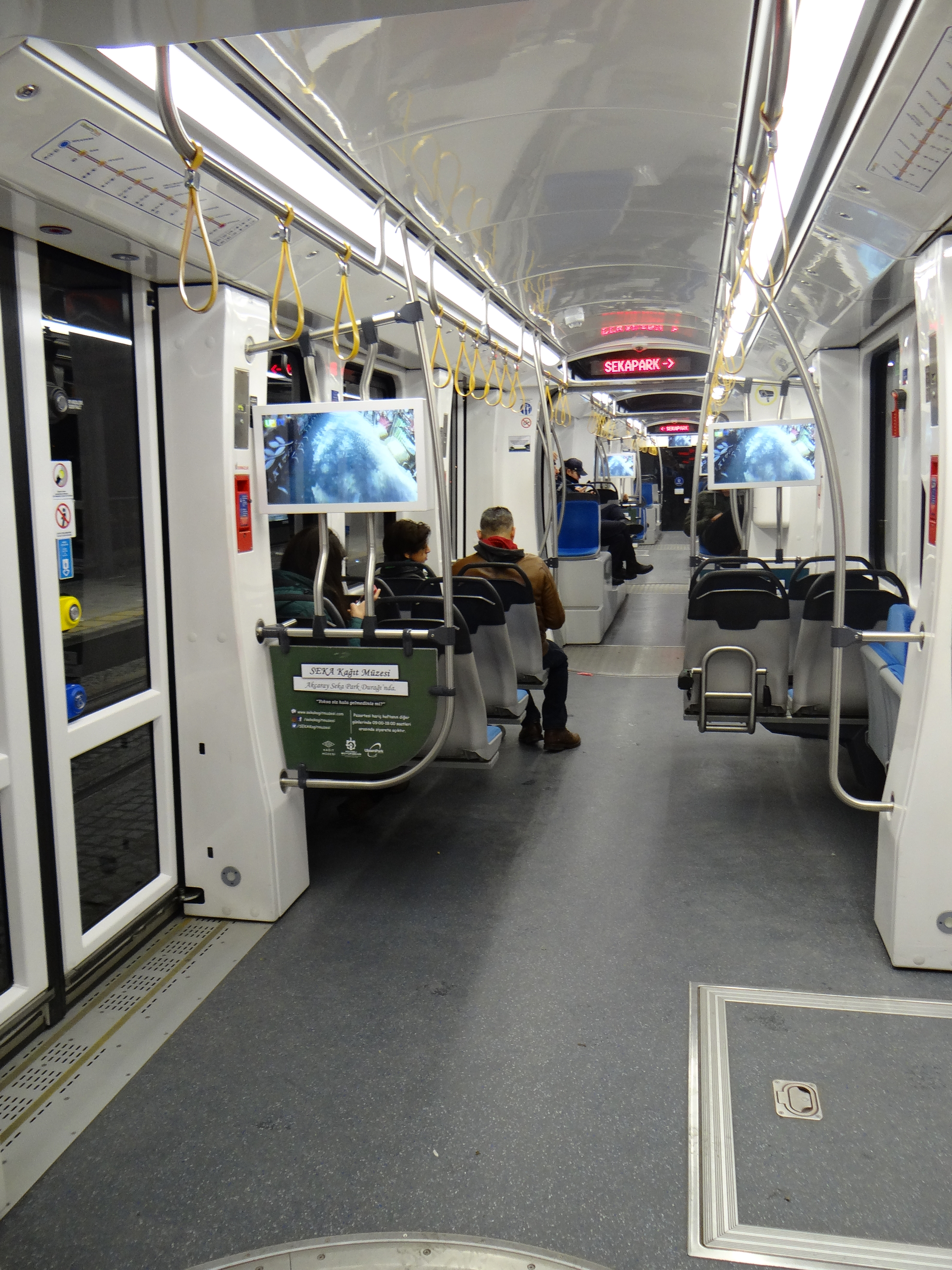 Izmit Tramway, Akçaray, Izmit 20181229